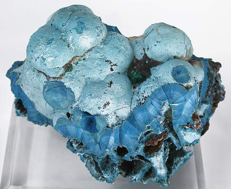 Plancheite Locality: Kambove West Mine, Kambove, Central Area, Katanga Copper Crescent, Katanga (Shaba), Democratic Republic of Congo (Zaïre) (Locality at ) Size: cabinet, 10.9 x 7.2 x 6.9 cm PLANCHEITE An exceptionally large and rich specimen of solid plancheite, forming veins and large globular clusters. I have not before seen such a good, rich specimen of this mineral for sale - although the mine is famous for it from the "old days." For the collector of weird copper species and African specimens, this is a beautiful, large, and rare display-sized specimen. ex. Marvin Rausch Collection